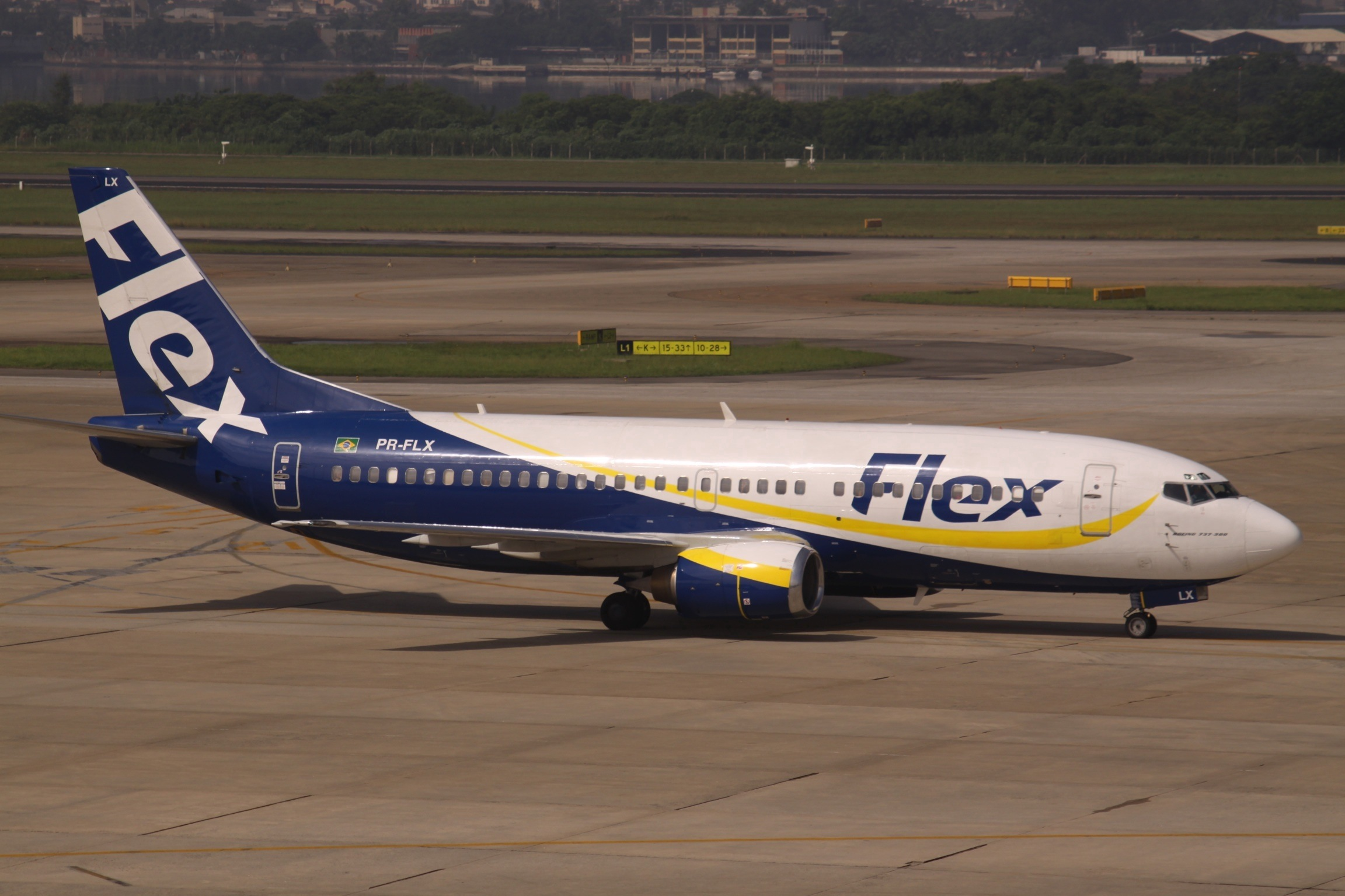 At Rio De Janeiro